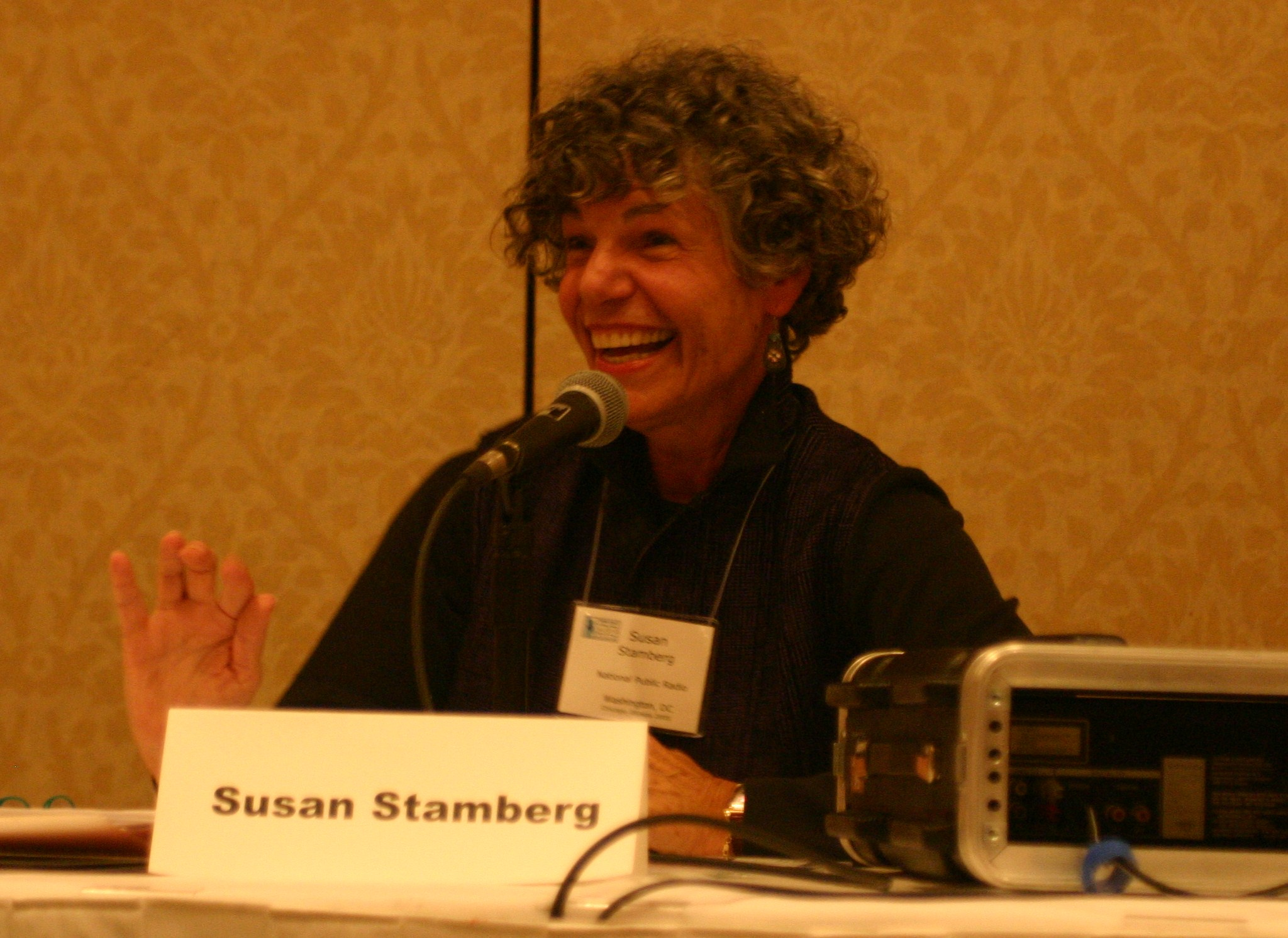 Susan Stamberg at the Third Coast Audio Festival - 10/21/2005